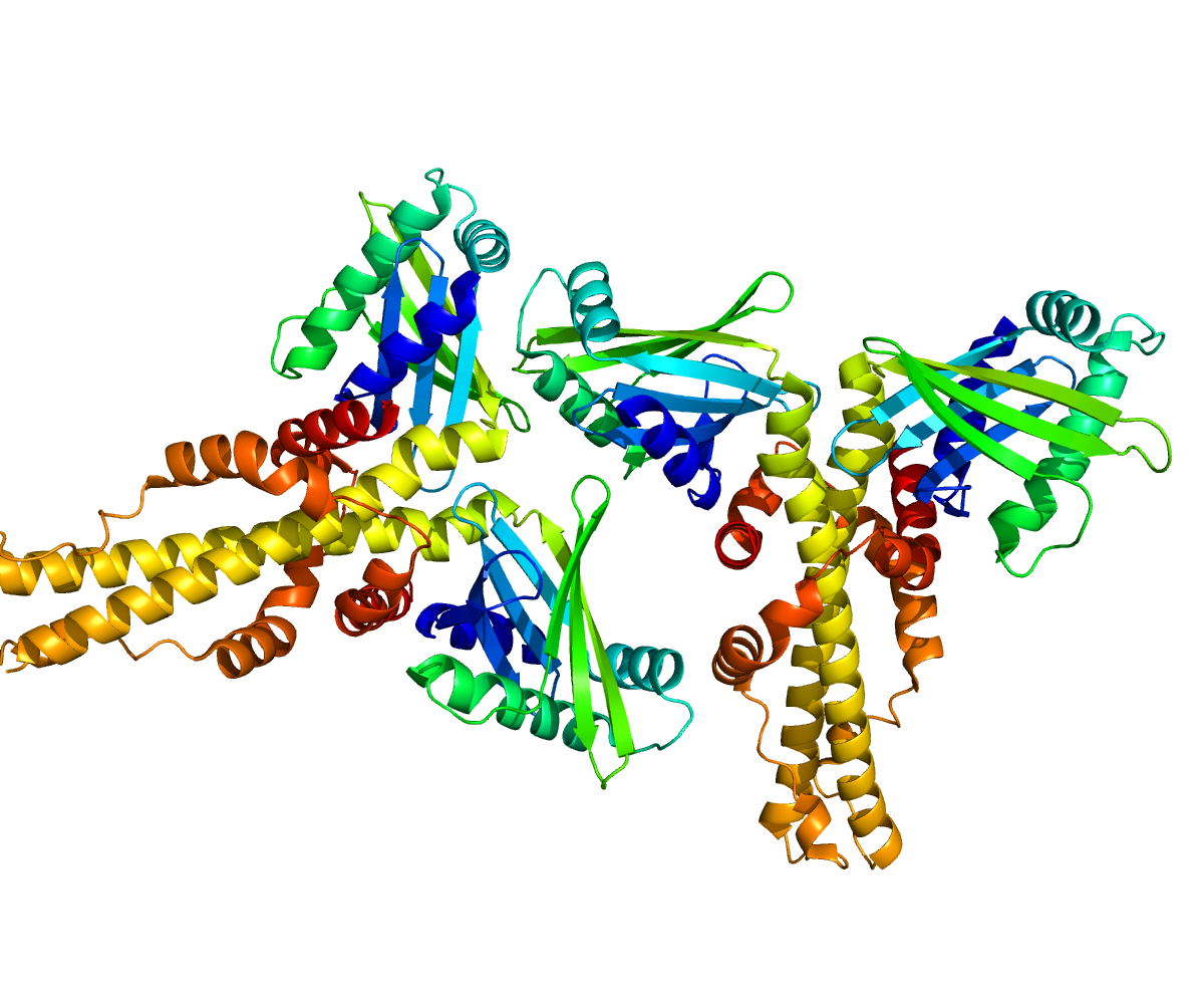 Structure of protein NHEJ1.Based on PyMOL rendering of PDB 2QM4.